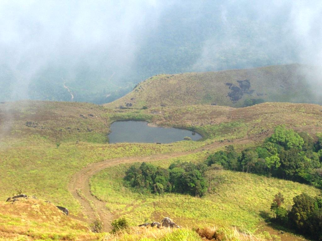 This is the photograph of the heart shaped lake en route the Chembra Peak. Photographer is Unnimadhavan, Sandeep and the picture is available in public domain at the URL Summary This is the photograph of the heart shaped lake en route the Chembra Peak. Photographer is Unnimadhavan, Sandeep and the picture is available in public domain at the URL